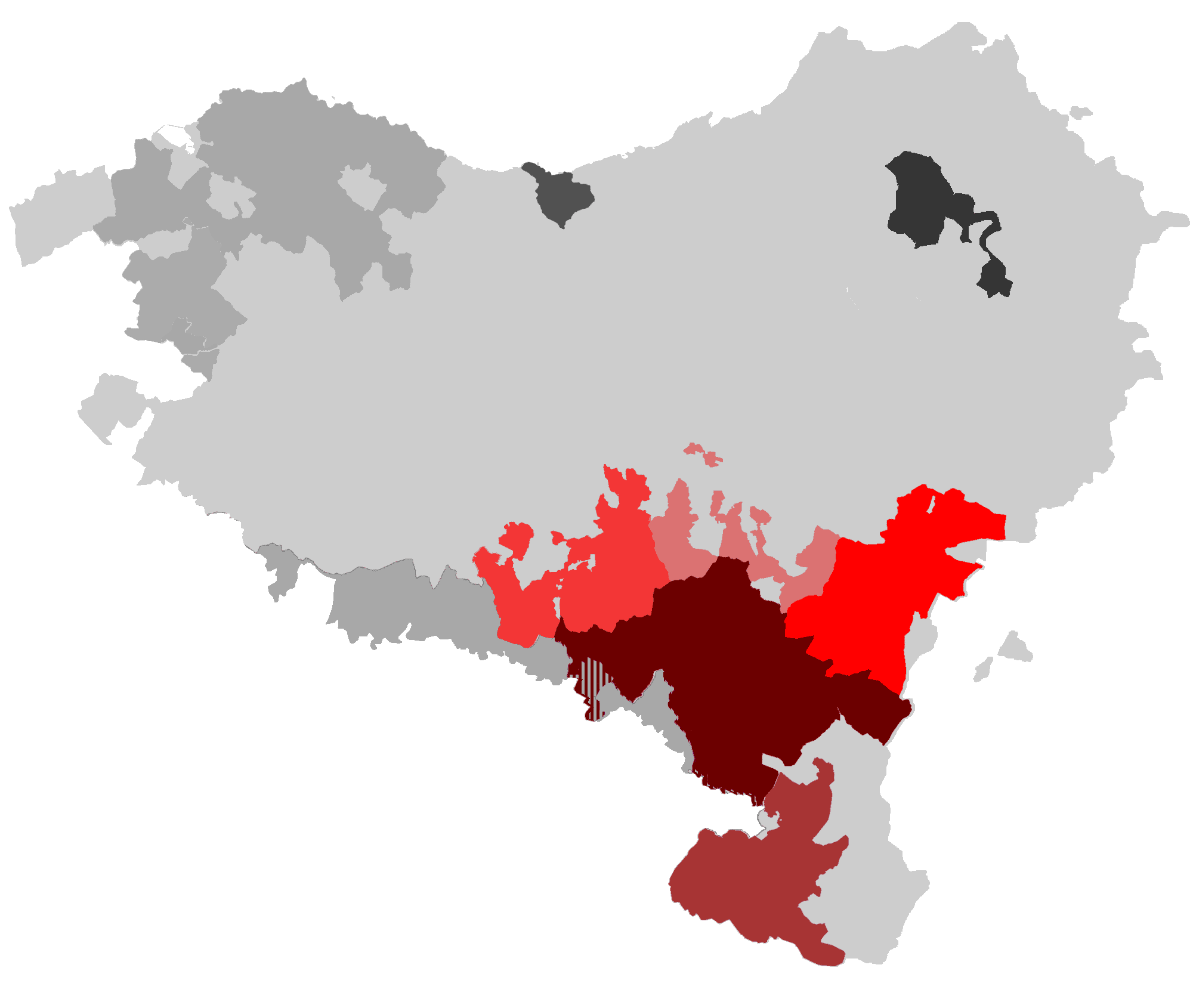 Map showing Navarra wine location in the Basque Country along other wines.